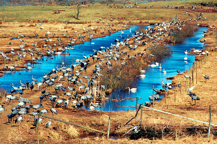 Cranes at the Lake Hornborga, Photographer: Wigulf